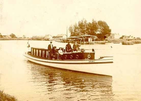 De Salonboot Avanti in 1909